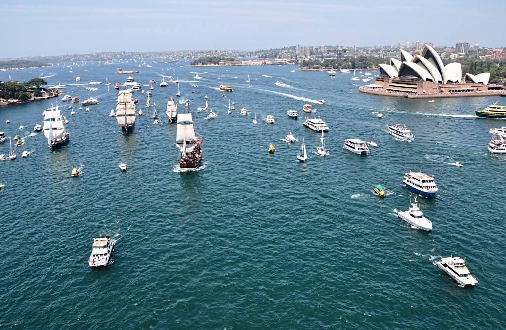 Australia Day 2010 being celebrated in Sydney. The tall ships on the left side of the picture are most likely (from left to right) the brigantine Young Endeavour, the barque James Craig, a smaller brigantine (or brigg?), and the fully rigged ship HM Bark Endeavour. original flickr description: "Happy Australia day to you all, even you *ahem* non-aussies :-)."